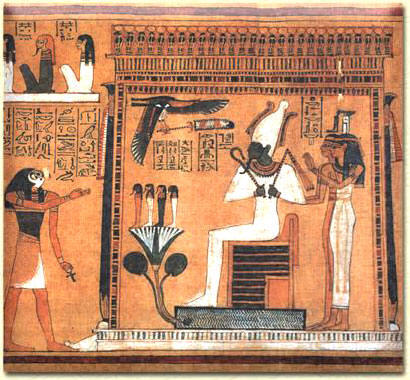 Papyrus of Hunefer.